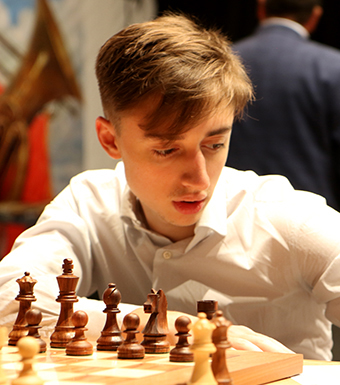 Daniil Dubov at Superfinal of the Russian Chess Championship, Satka, 2018